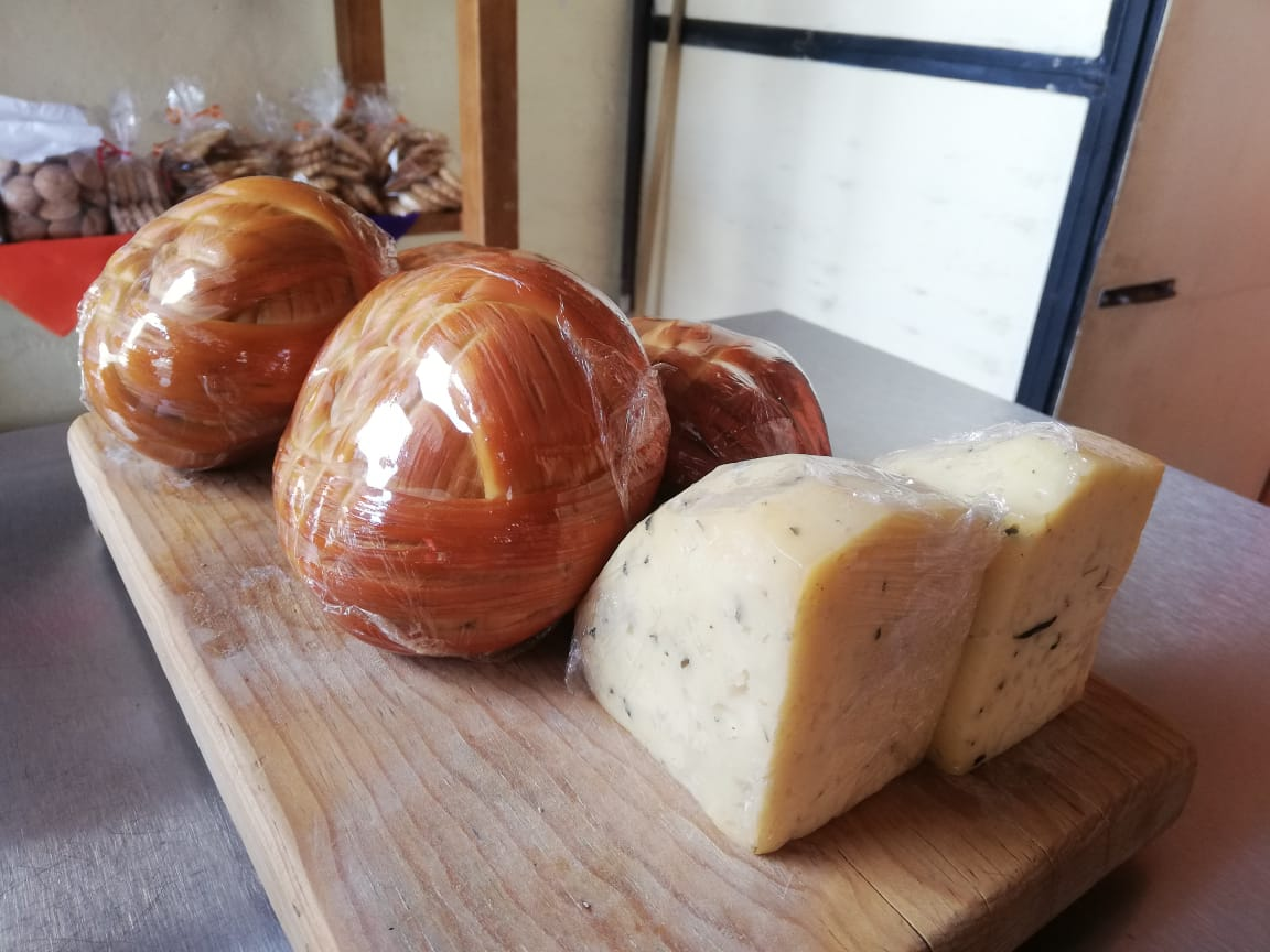 Gastronomía Mexicana. Quesos típicos de Aculco, Edo de Méx